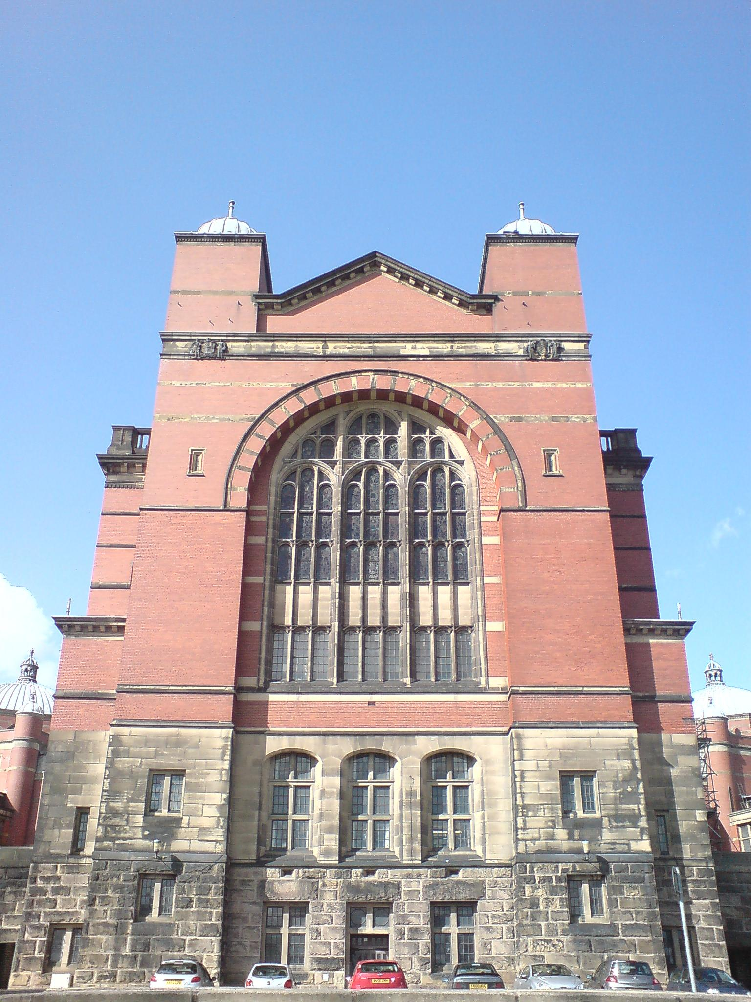 View of Aston Webb building